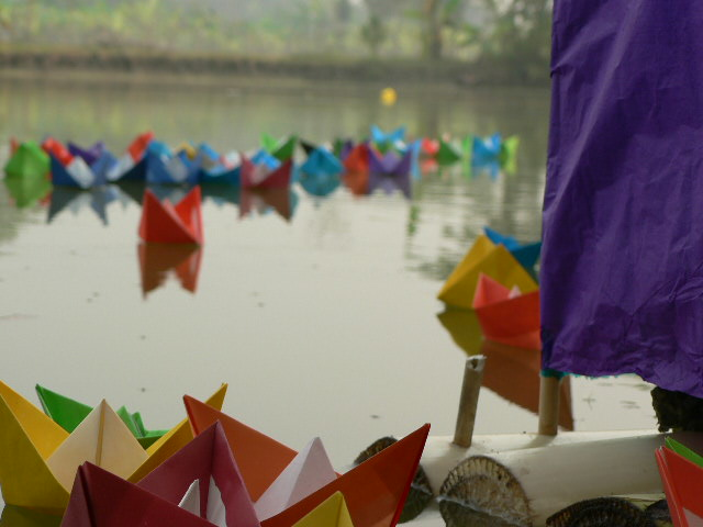 Annual Crack International Art Camp in Rahimpur, Kushtia, Bangladesh, 2007.